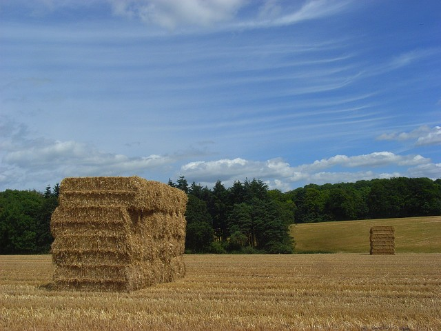 Great Down, Slindon. Bales and stubble in a post-harvest scene. Ashlee Wood is in the small dry valley in the middleground.